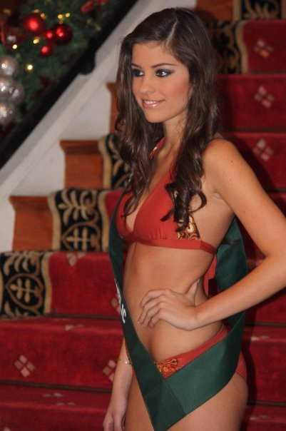 Miss Earth 2009 Press Presentation last November 4, 2009 in Valle Velarde 6, Pasig City, Philippines.